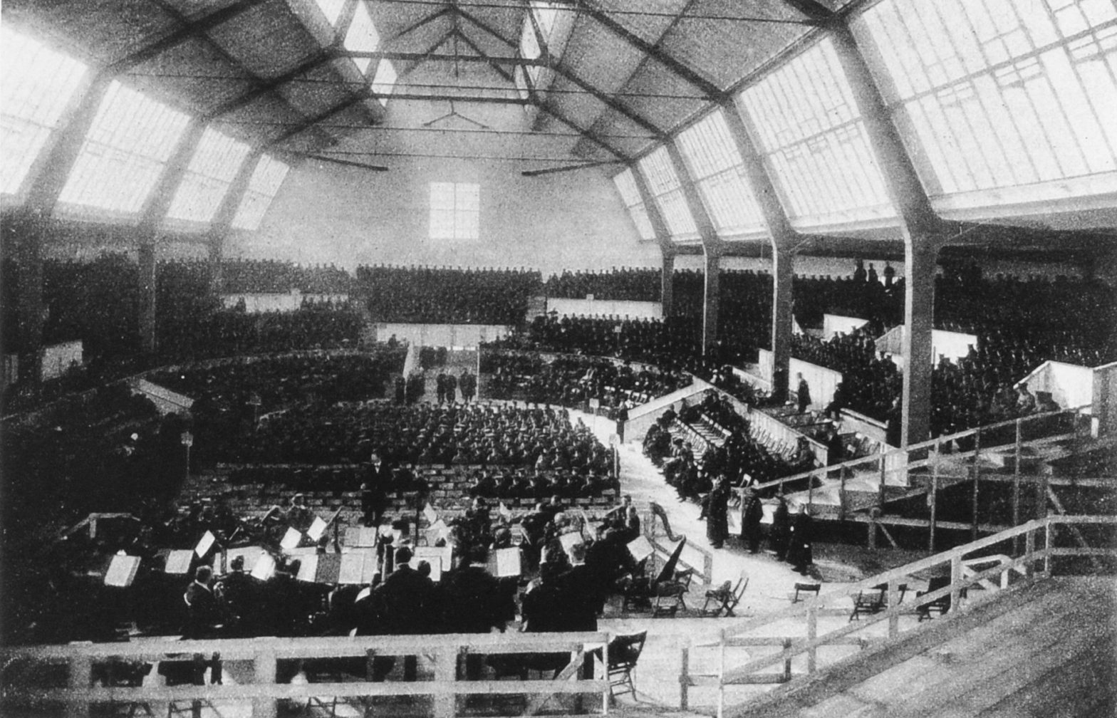 Dress rehearsal for the premiere of Mahler's 8th symphony, Munich